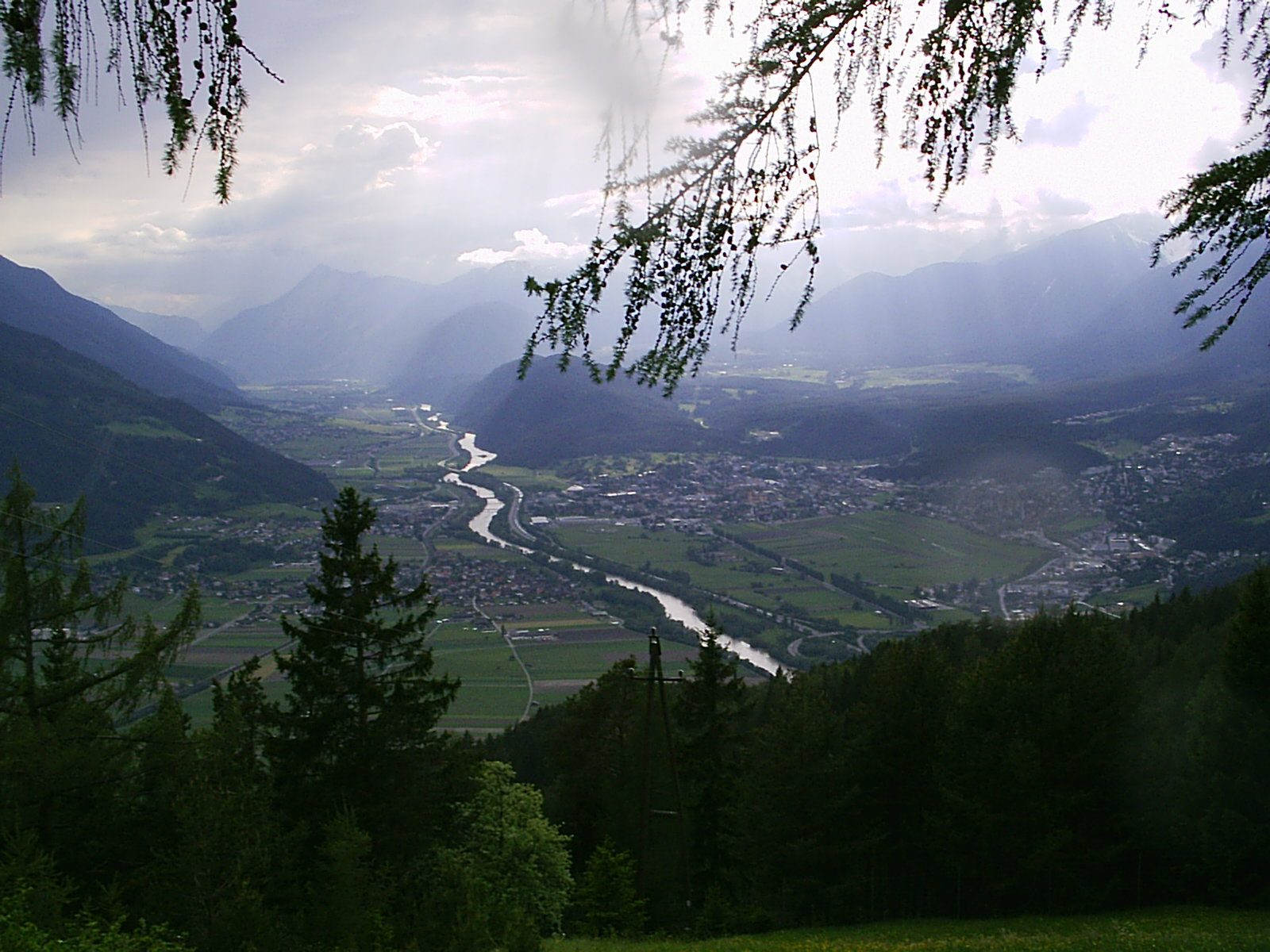 The Inn river running through Tyrol west of Innsbruck